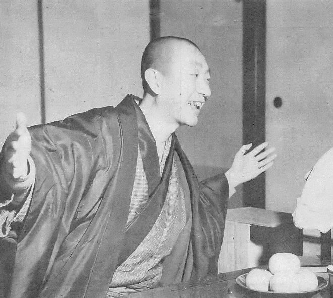 Go Seigen